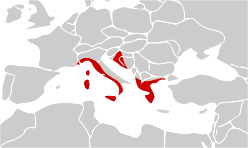 Distribution map of Potaton fluviatile